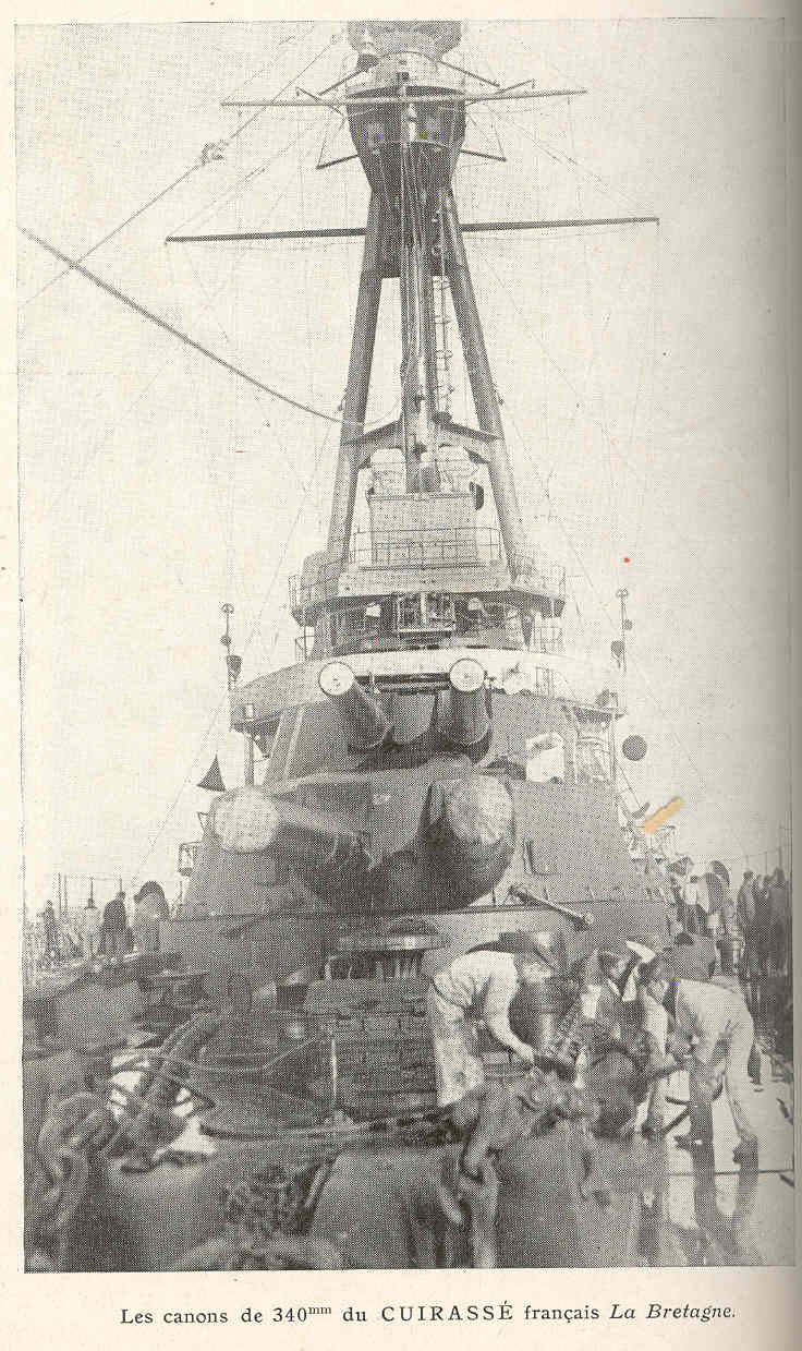 Subject: Bretagne (Battleship), Battleships, Ordnance, Naval, Naval gunnery Tag: Vessels